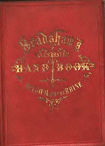 Cover of: Bradshaw's Illustrated Hand-book for Travellers in Belgium, London: W.J. Adams, = 1856